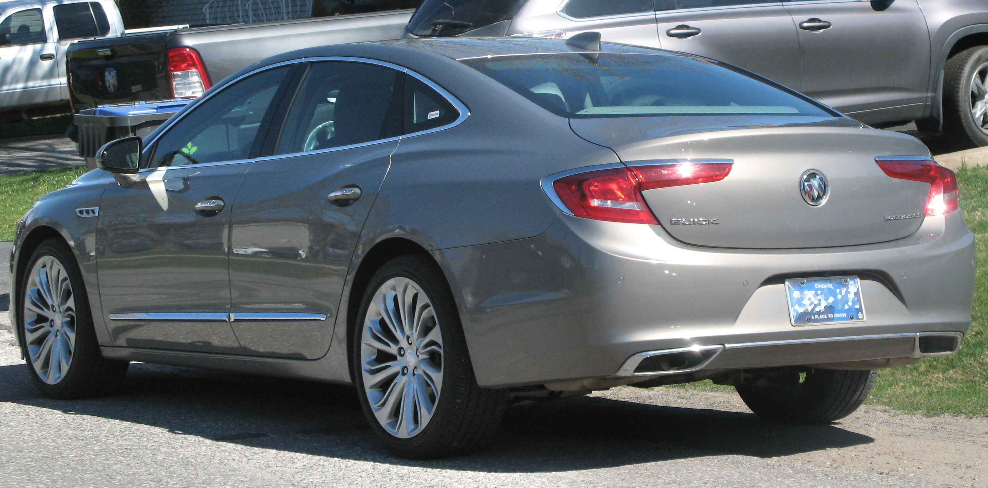 2018 Buick LaCrosse Premium AWD photographed in Sault Ste. Marie, Ontario, Canada